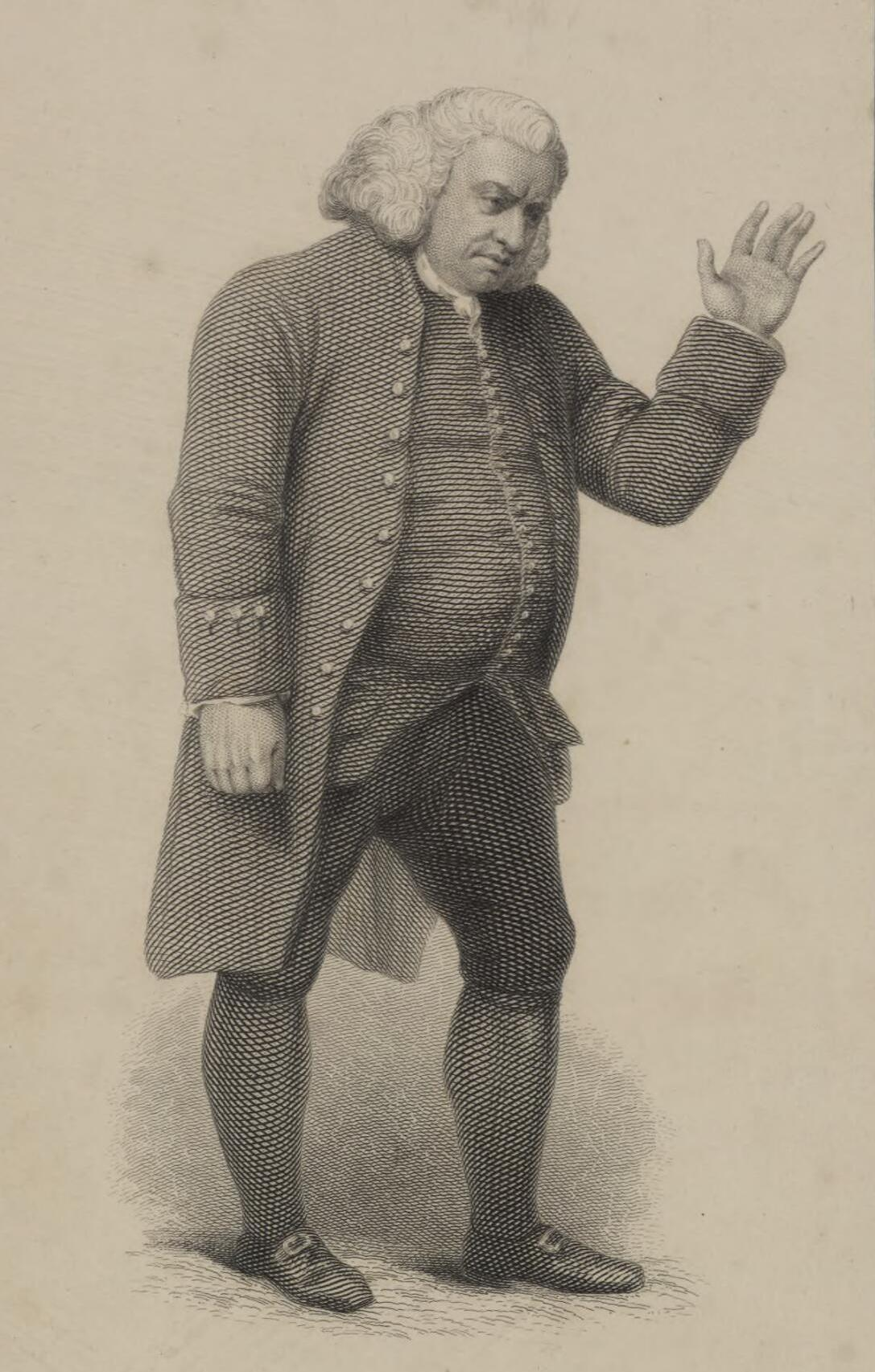 A portrait from the Welsh Portrait Collection at the National Library of Wales. Depicted person: Samuel Johnson – English poet, biographer, essayist, lexicographer